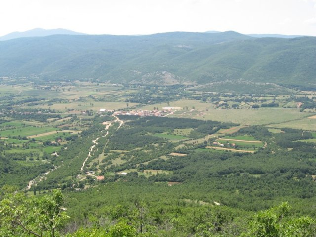 Berkovići